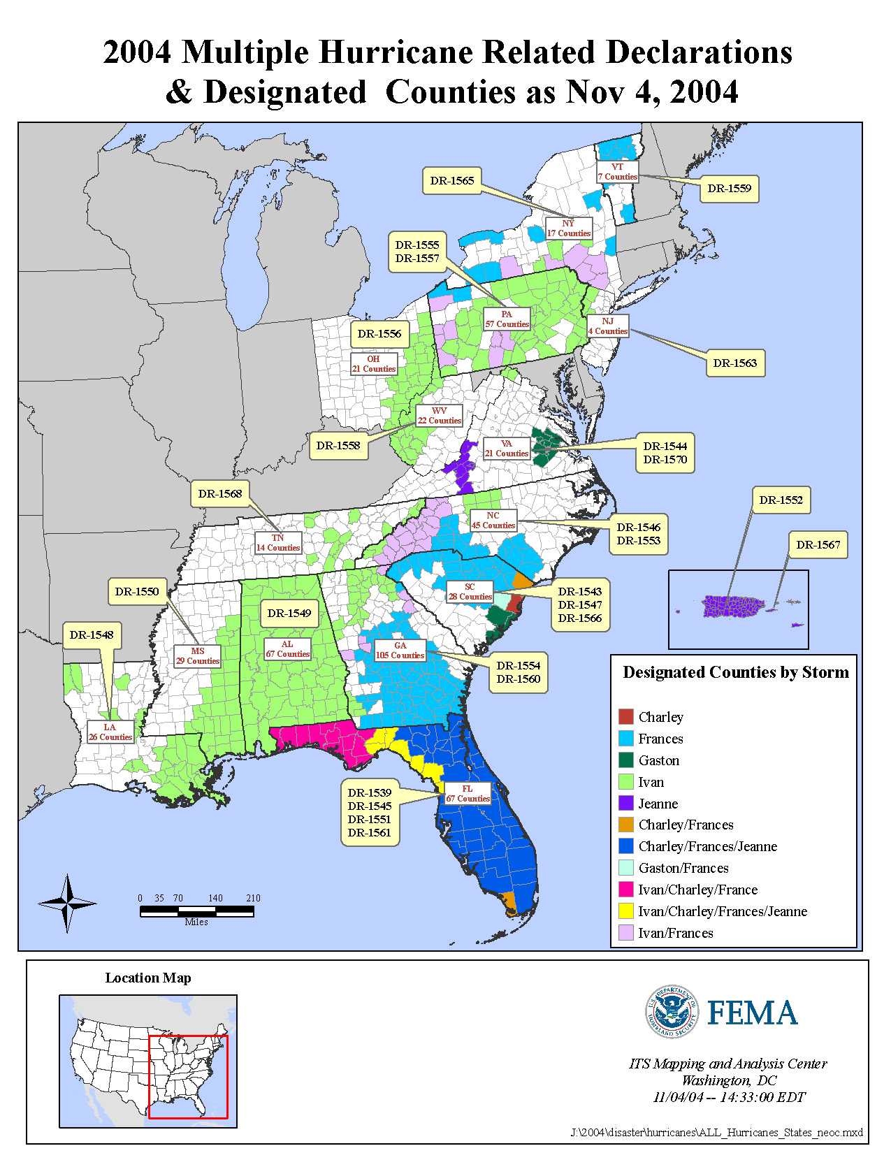 Washington, DC, November 4, 2004 -- This is an illustration of the 2004 Multiple Hurricane Related Declarations and Designated counties as of Nov. 4, 2004. FEMA ITS Mapping and Analysis Center